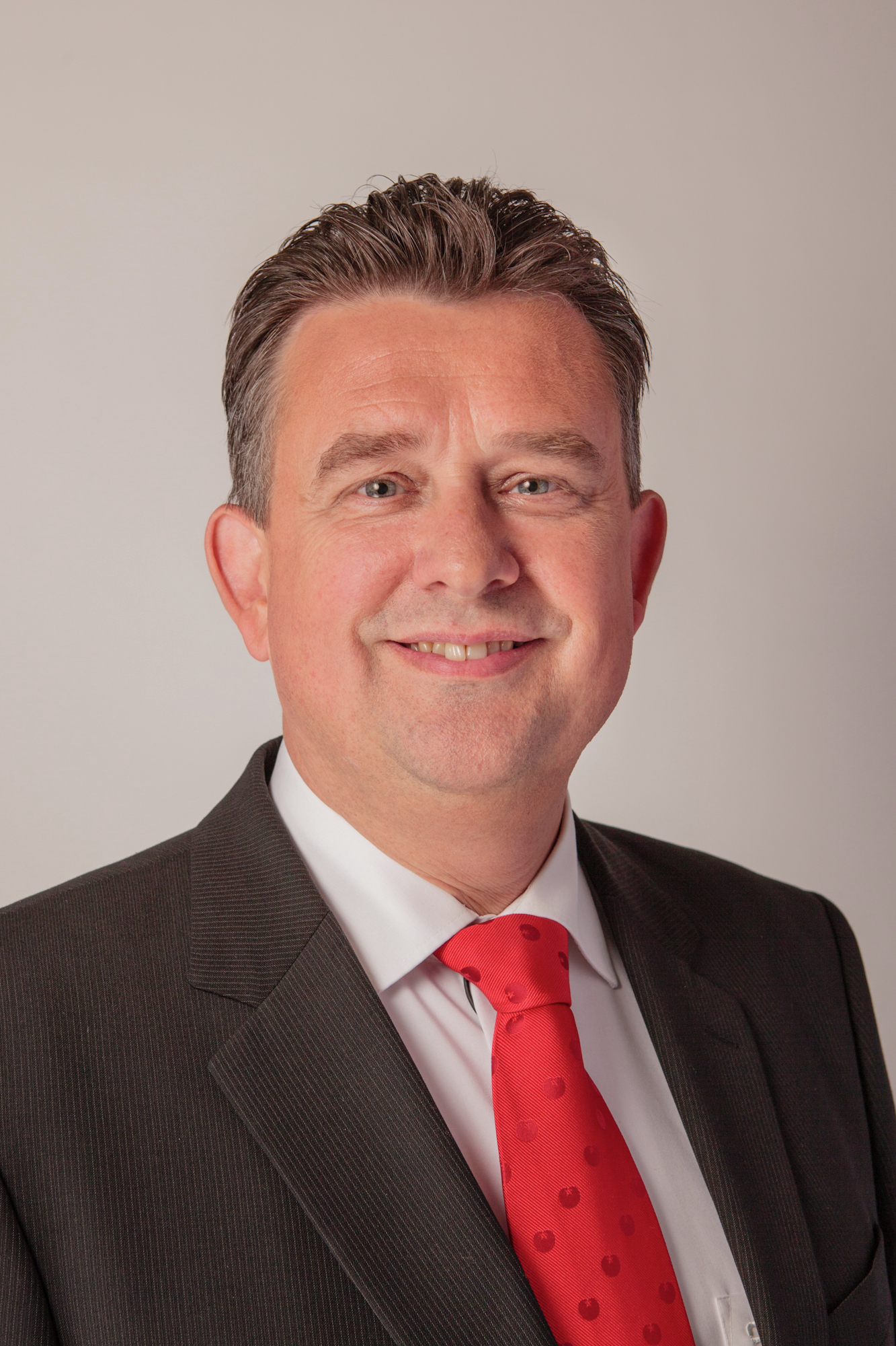 Socialistische Partij Candidate for the House of Representatives during the 2012 general elections.